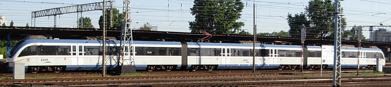 SKM train at the Warszawa Wschodnia railway station in Warsaw